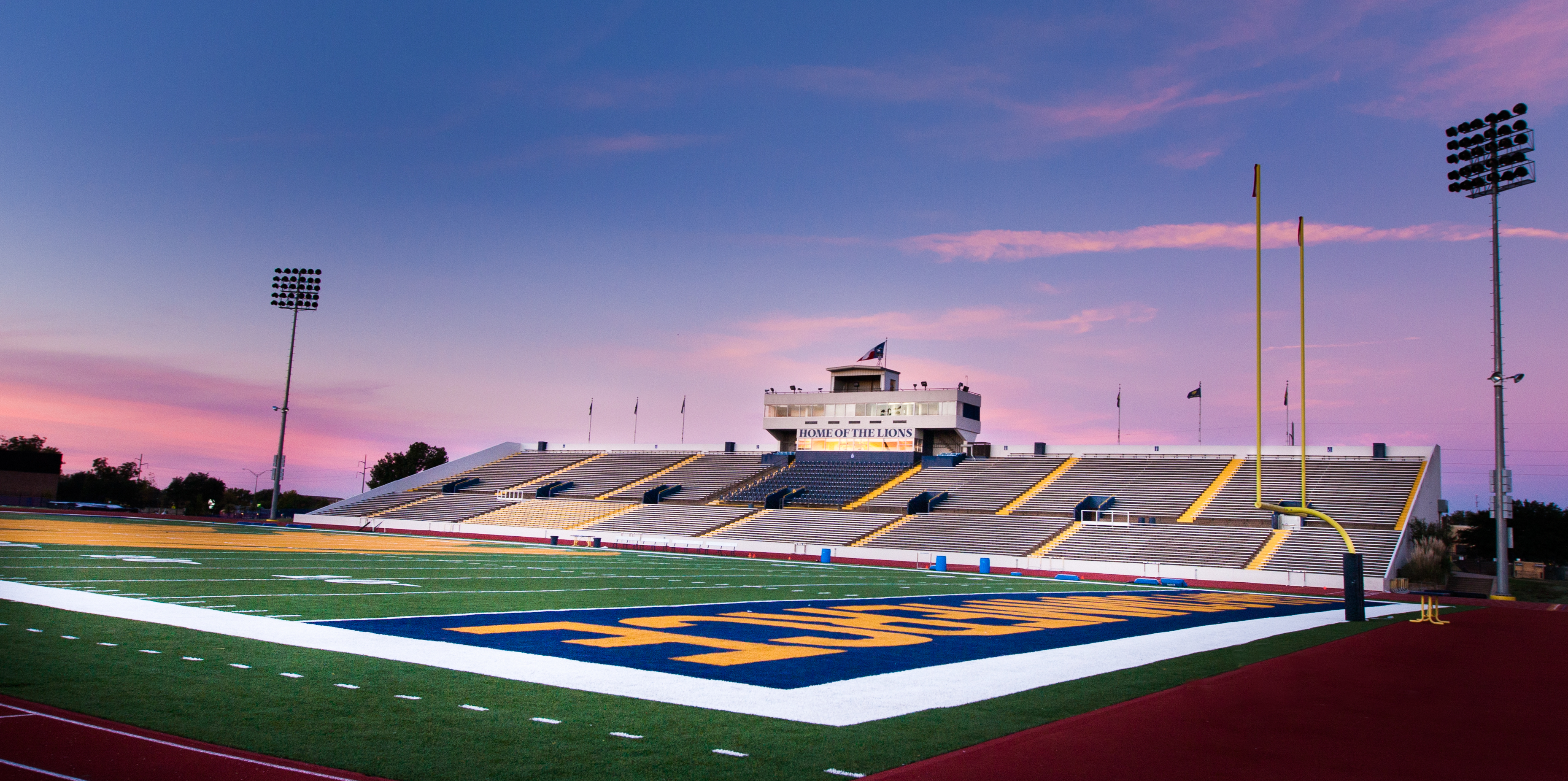 Lion Football-Ariel Rawlings-3Memorial Stadium (Texas A&M–Commerce)